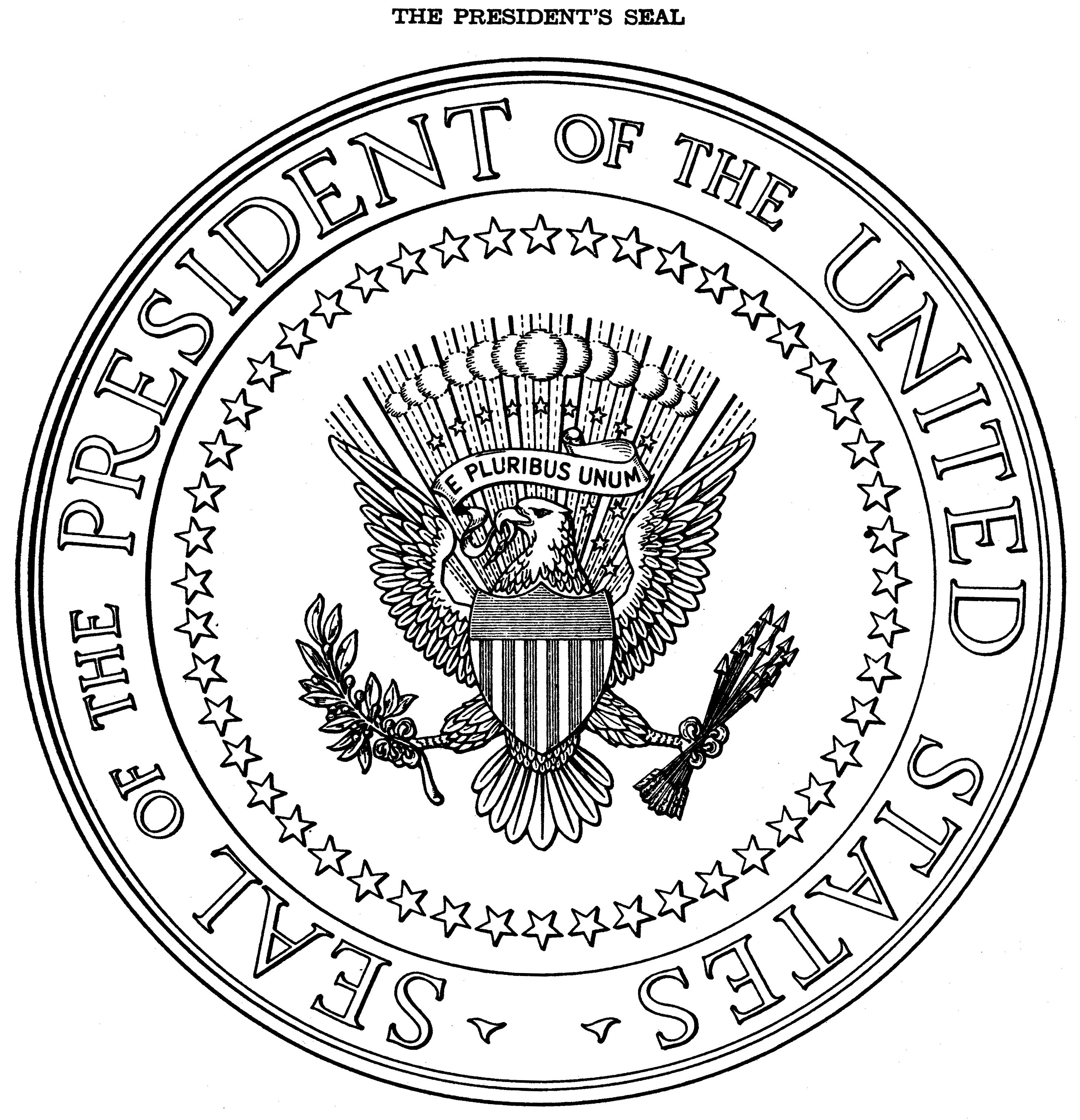 The 1945 version of the Seal of the President of the United States, with 48 stars. This is the attachment to President Truman's Executive Order 9646, which defined the seal.